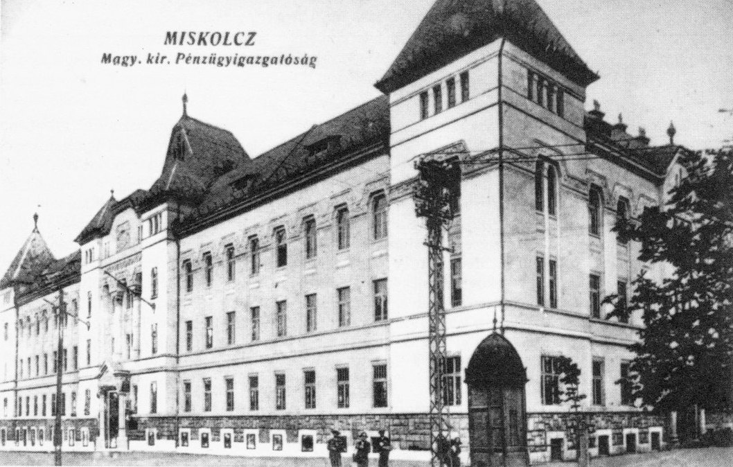 Finance Palace, 2 Fazekas street, Miskolc, Hungary, 1923